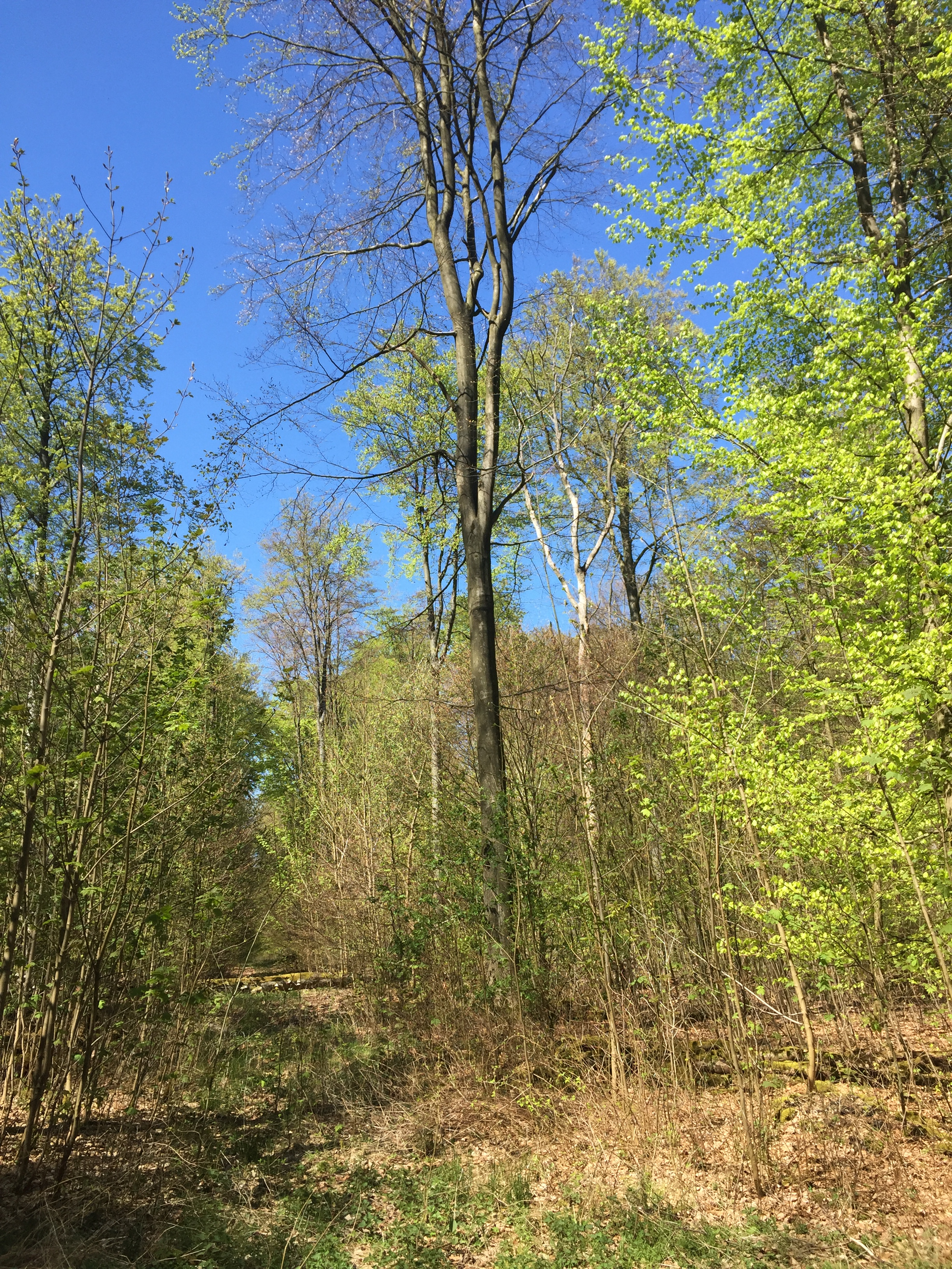 View of the vegetation in the Nature reserve Buchenwälder im Rosengarten, Lower Saxony, Germany